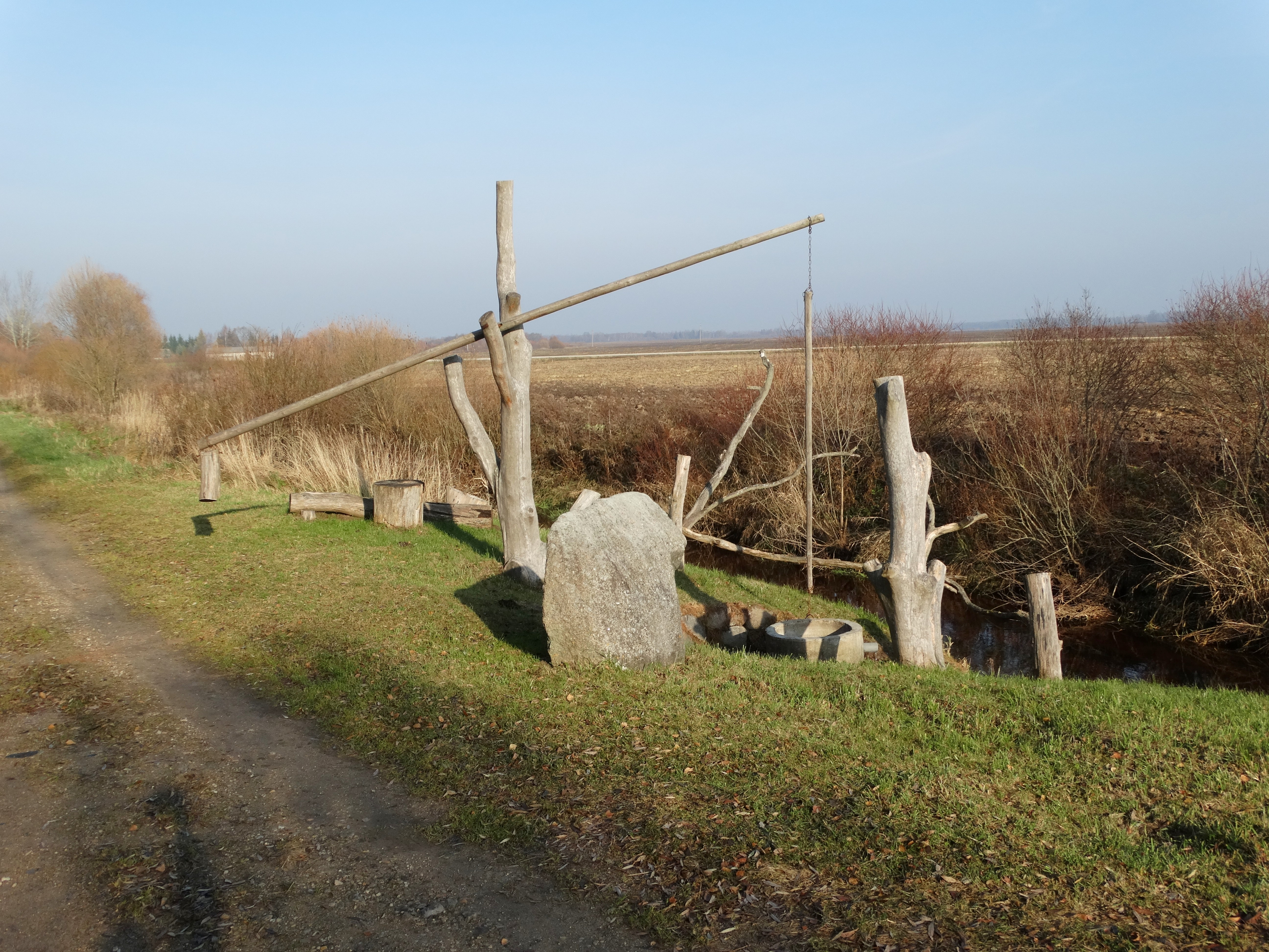 Baltasis Spring, Pasvalys District, Lithuania